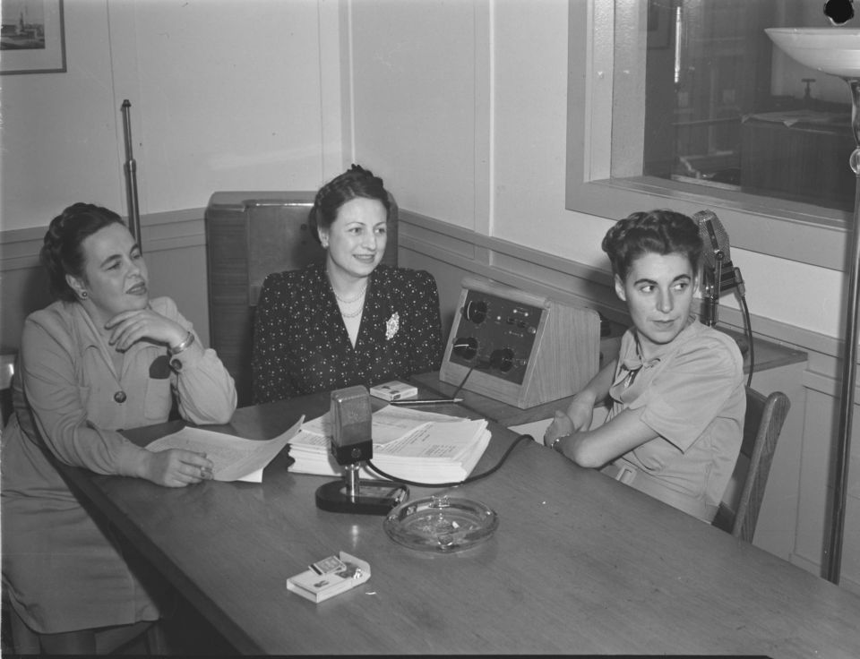 Marcelle Barthe, Berthe Lavoie and Judith Jasmin, three directors of CBF (Radio-Canada) in Montreal in 1945, meeting in the studio.